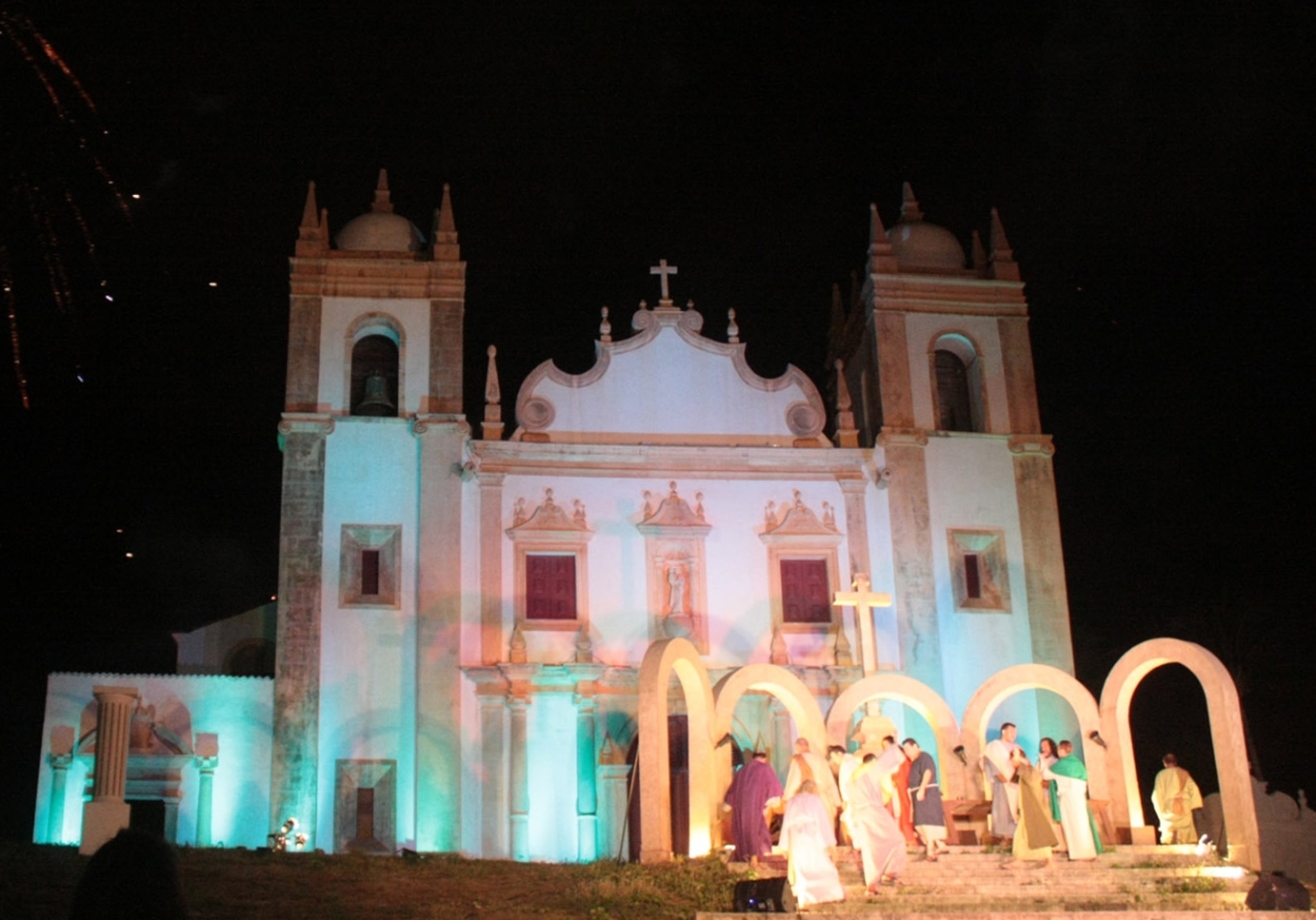 Church of Carmo, the first church of the Order of Carmelites in the Americas - Olinda, Pernambuco, Brazil